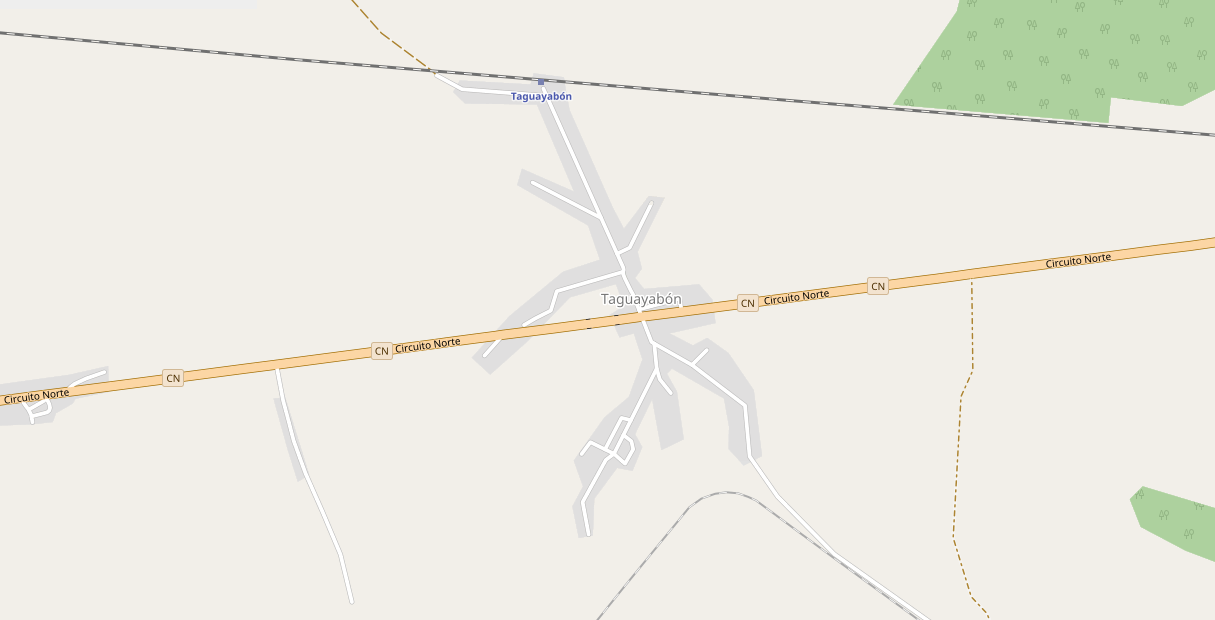 This map may be incomplete, and may contain errors. Don't rely solely on it for navigation.